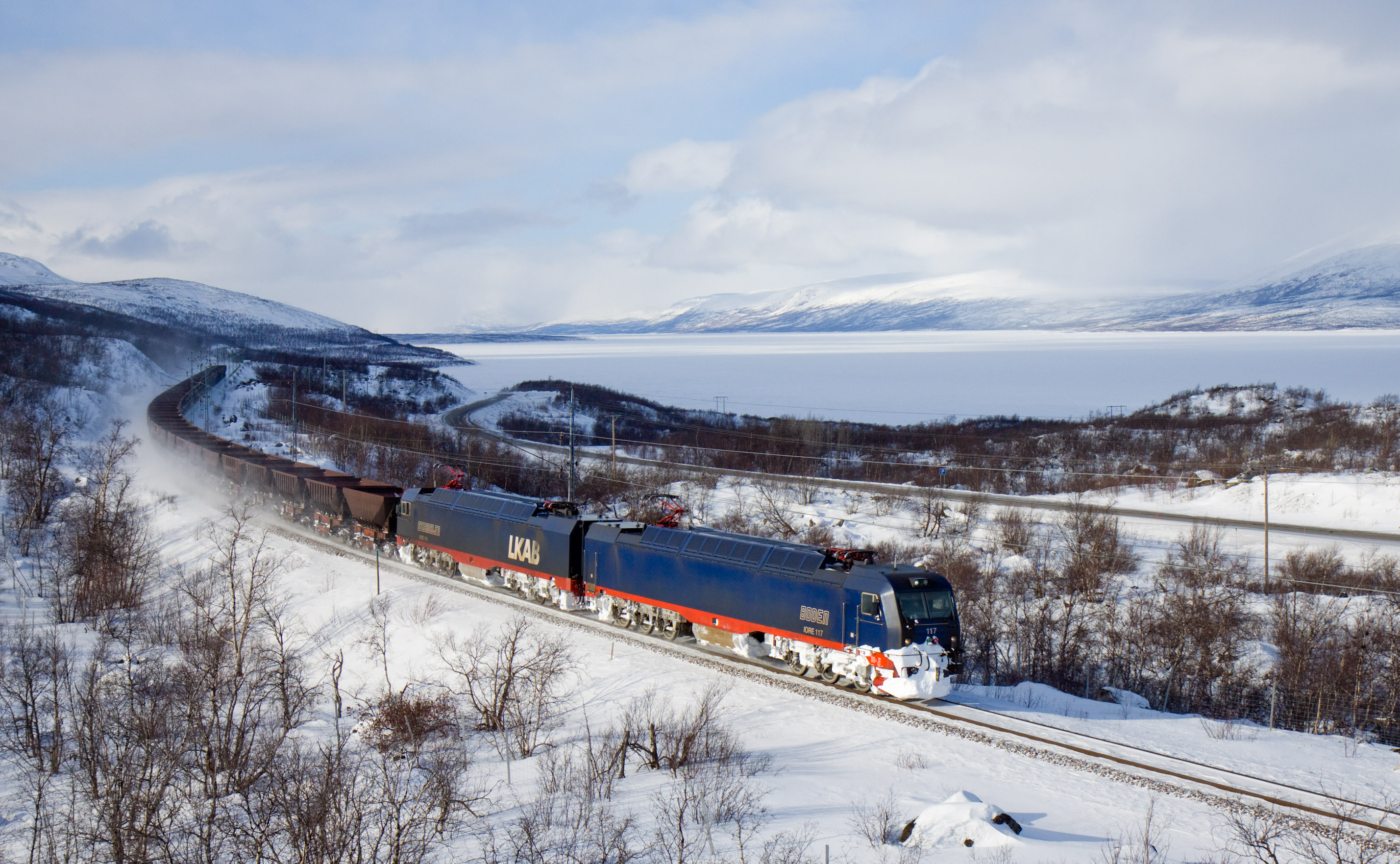 MTAB IORE with an empty ore train near Torneträsk (the lake in the background), between Abisko and Kiruna